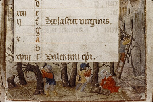 Occupation of the month: lopping trees for firewood, in calendar for February. Bodleian Library MS. Gough Liturg. 7